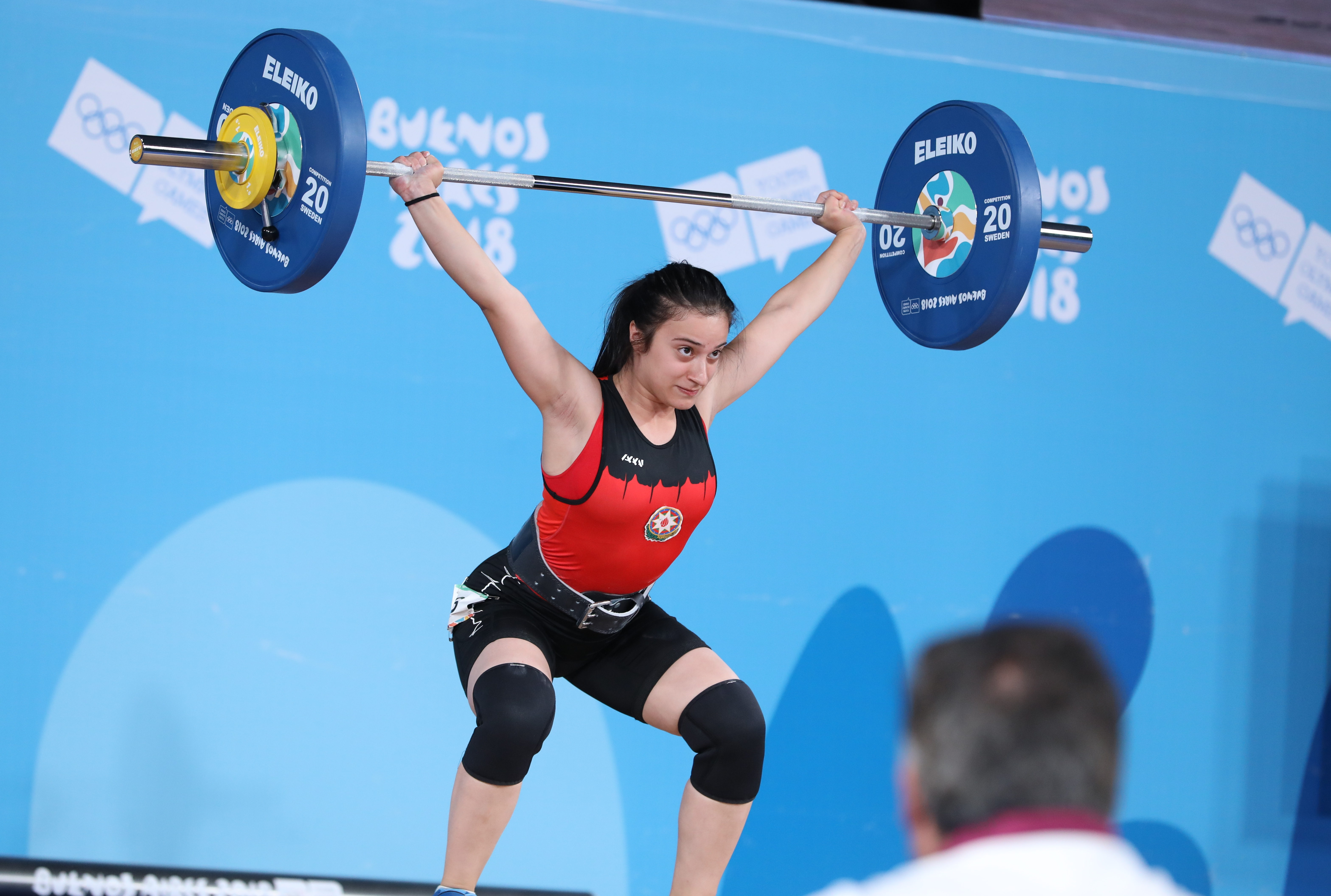 Weightlifting female, 58 kg: Snatch